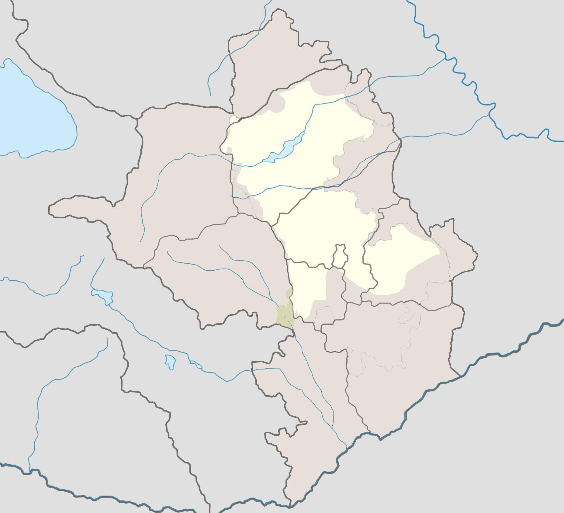 Location map of Nagrno-Karabakh. Geographic limits of the map: N: 40.7° N S: 38.9° N W: 45.4° E E: 47.7° E